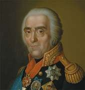 Field Marshal Gudovich